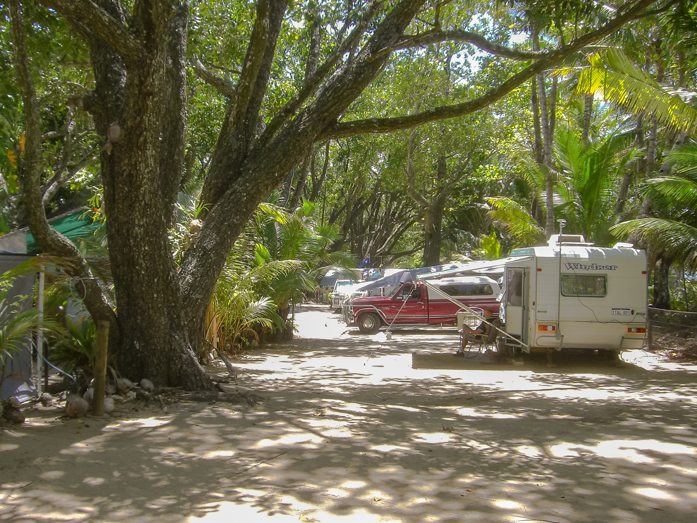 Daintree National Park, Nationalpark, Australien